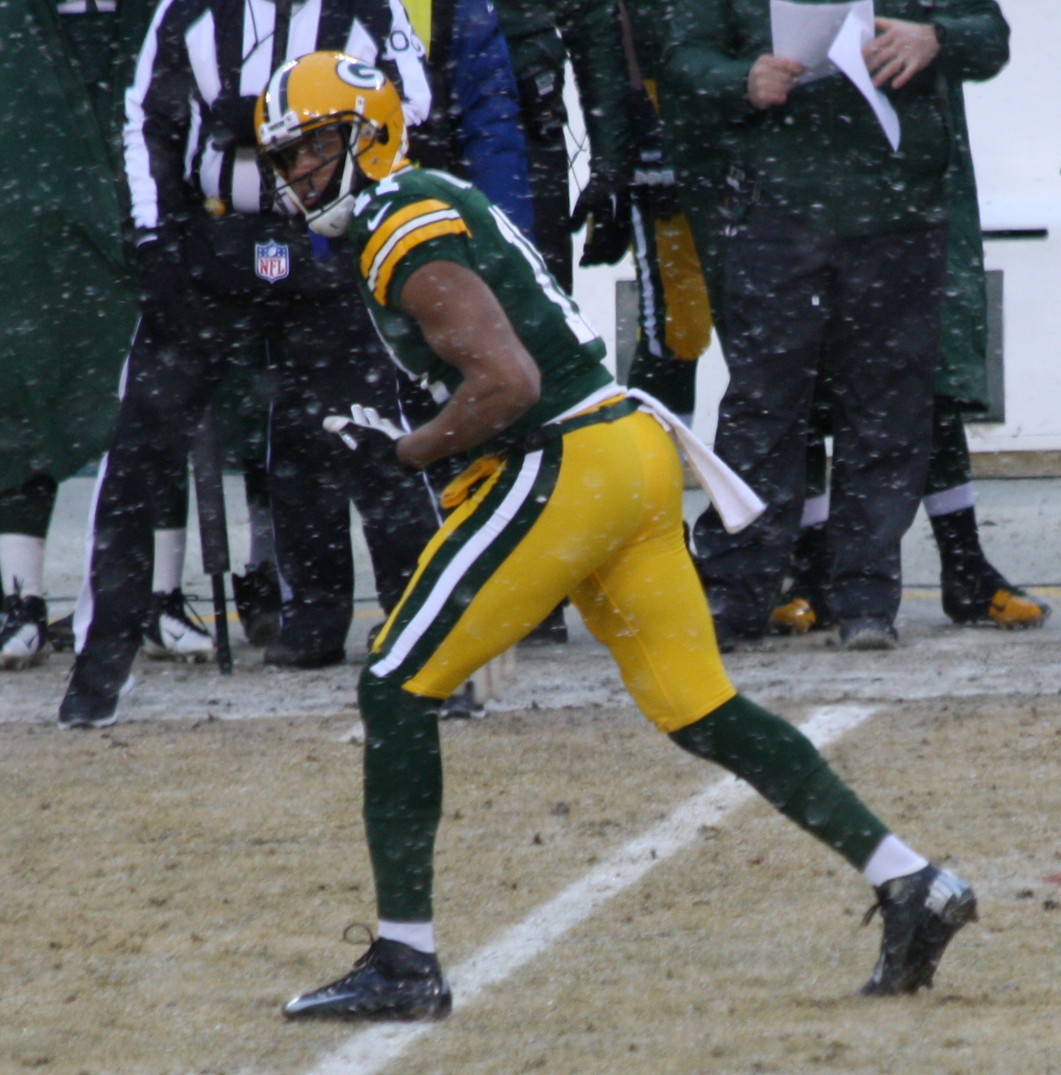 Green Bay Packers player Jarrett Boykin lined up on offense against the Pittsburgh Steelers.